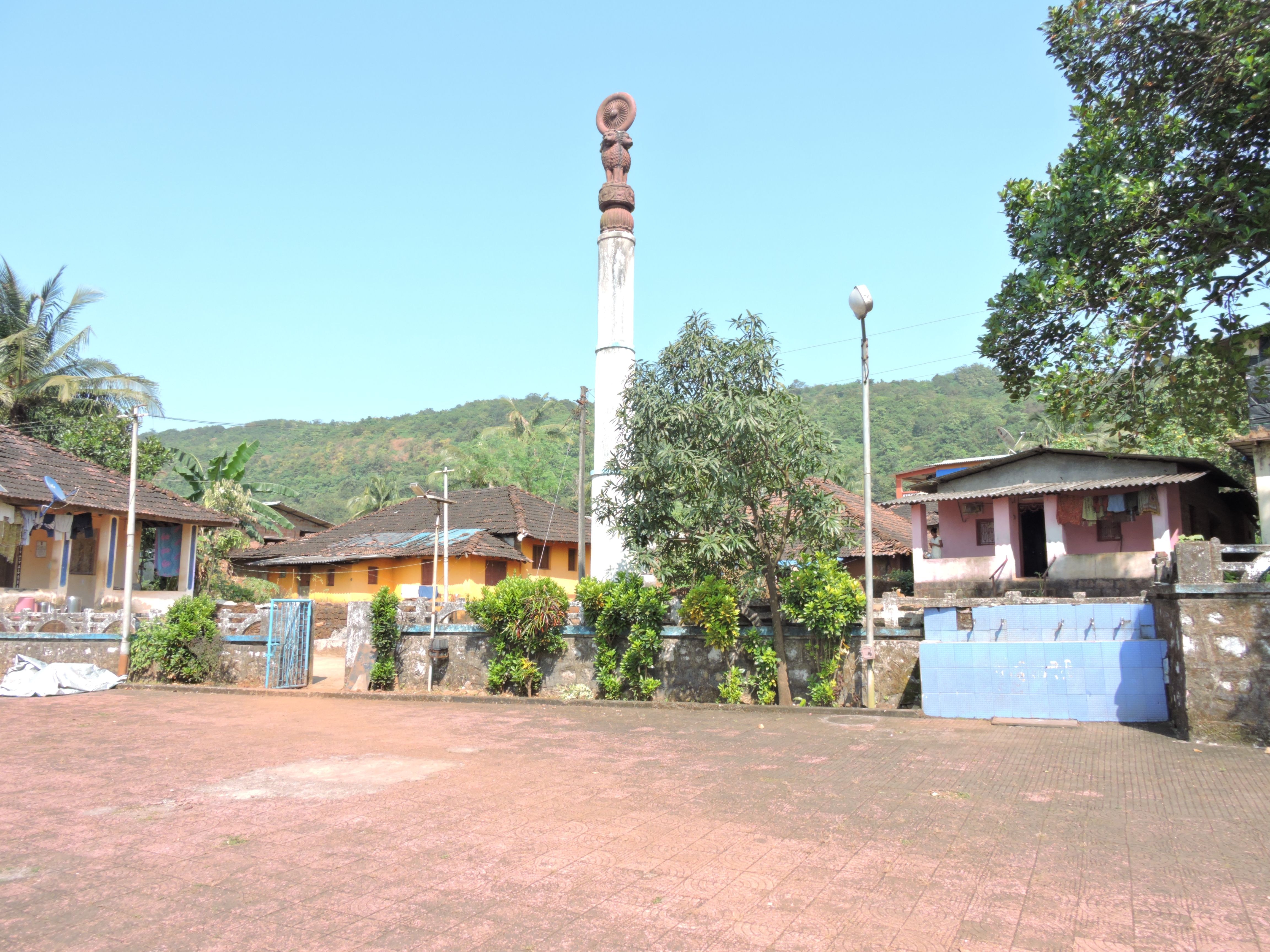 Smarak